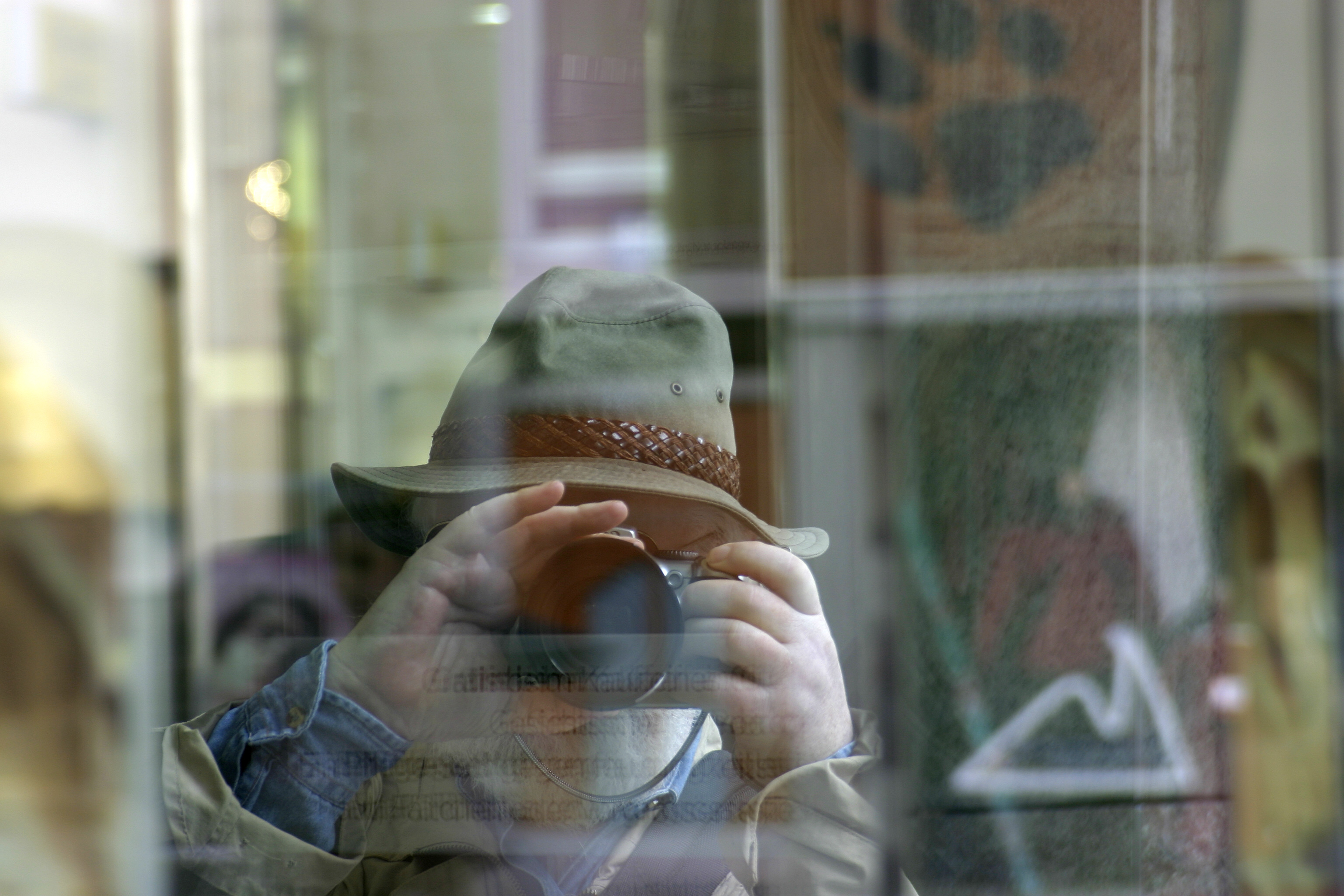 Photograph